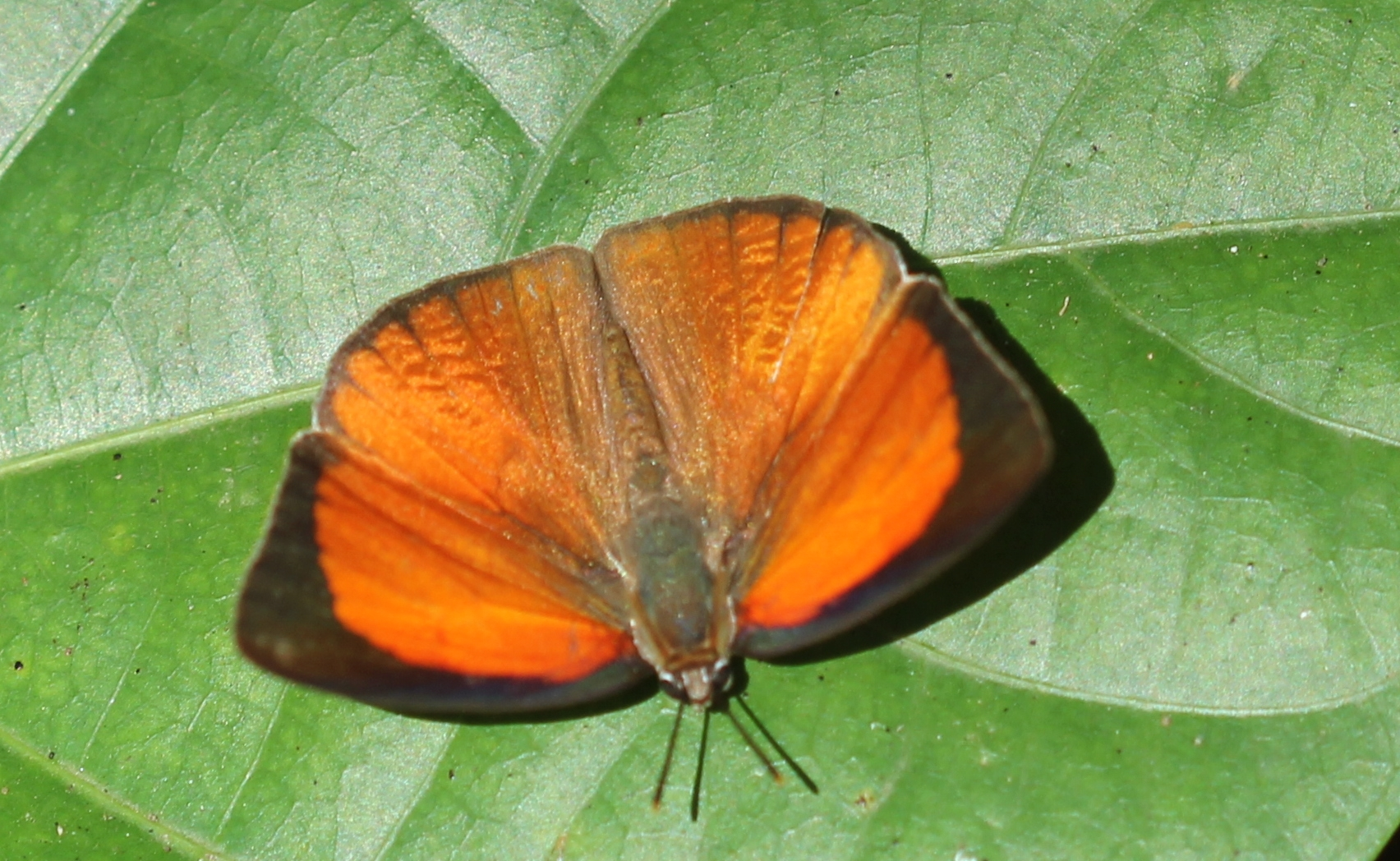 open wing view of indian sun beam